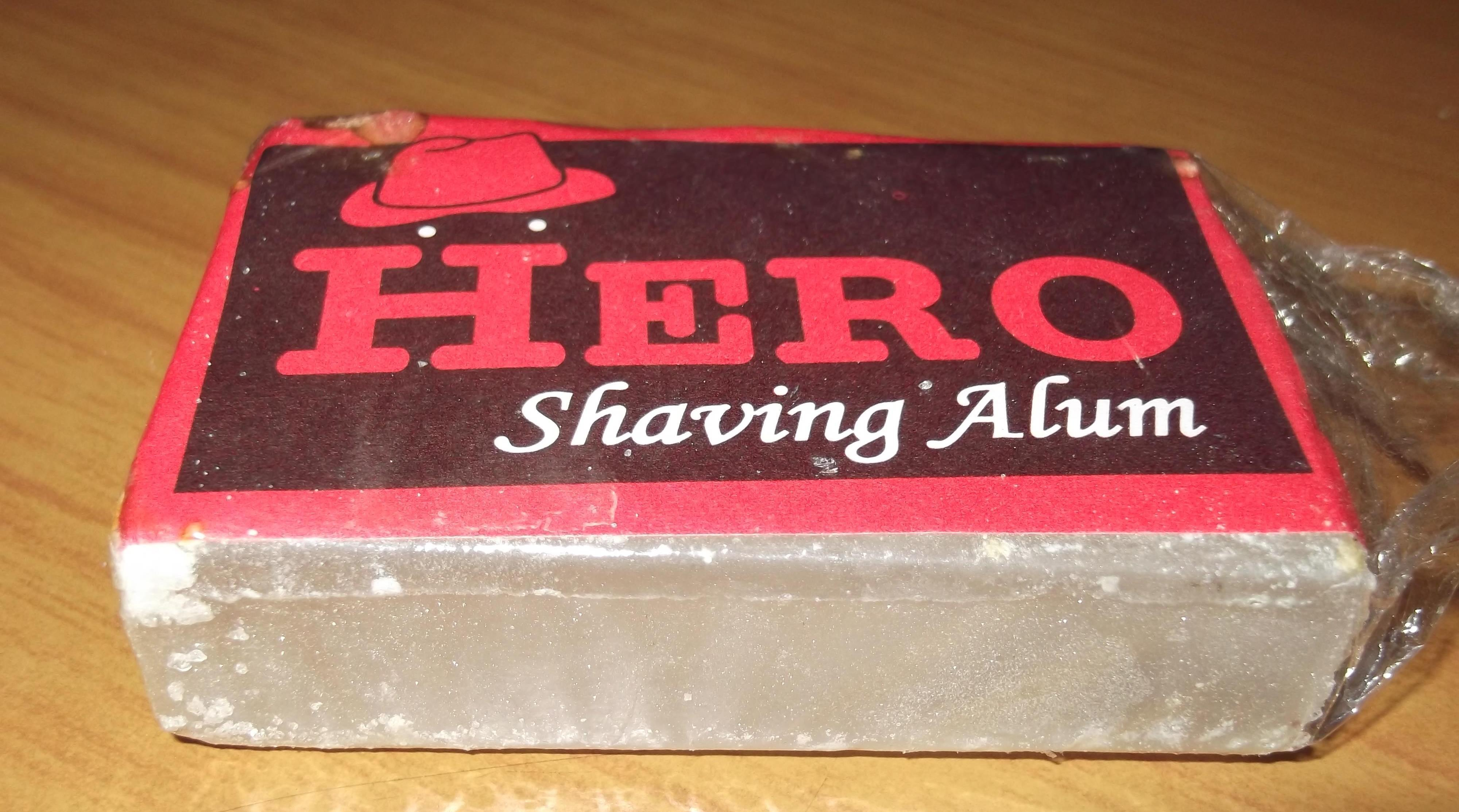 This is a 7cm x 4.5cm alum block commonly sold at every medical store in india. It is the most commonly used aftershave in india. It retails for Rs. 10 which is around 20 american cents.